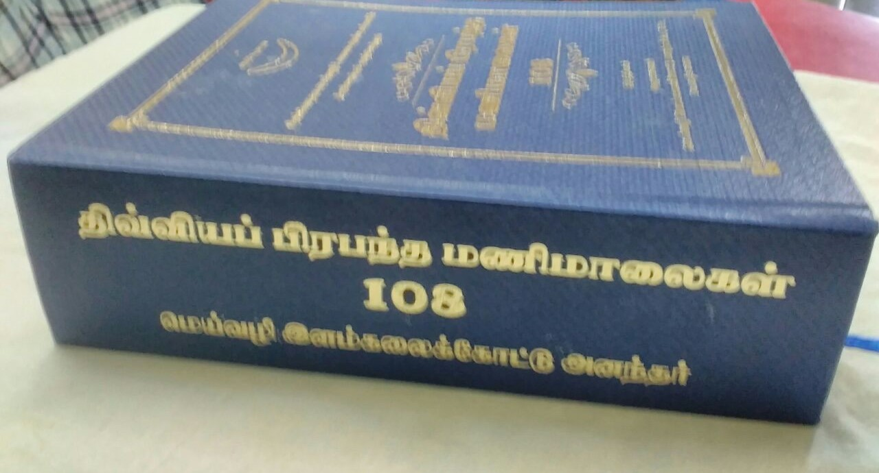 "Divya Prabantha Manimalaigal 108" book side view. This book is authored by Meivazhi Ilam Kalaikottu Ananthar